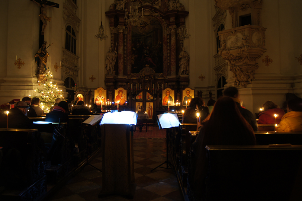 Ecumenical Evening Prayers with Chants from Taizé and the Eastern Churches in the Church of St. Mark, Salzburg